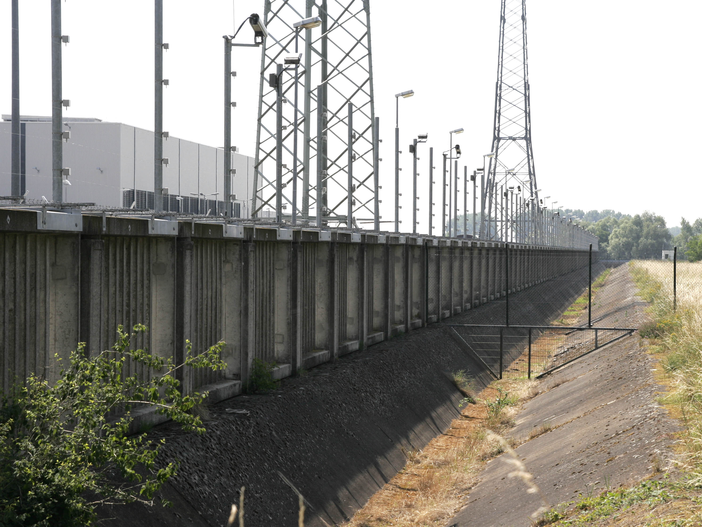 Biblis Nuclear Power Plant (Germany), block A seen from South-West.